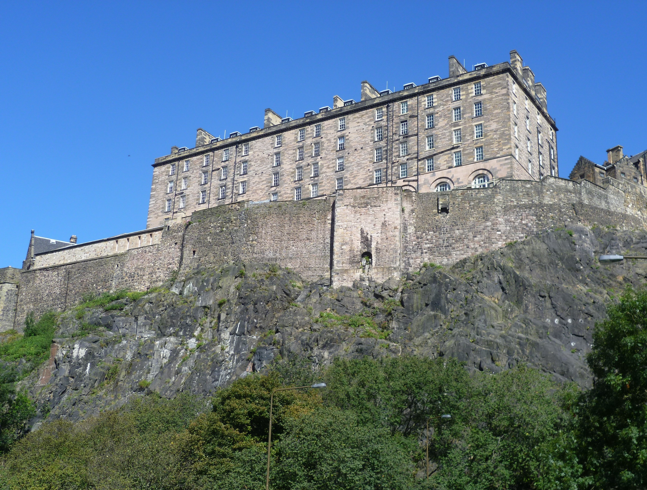 The New Barracks, Edinburgh Castle "Edinburgh Castle...he owned was 'a great place'. But I must mention, as a striking instance of that spirit of contradiction to which he had a strong propensity, when Lord Elibank was some days after talking of it with the natural elation of a Scotchman, or of any man who is proud of a stately fortress in his own country. Dr. Johnson affected to despise it, observing that, 'it would make a good prison in ENGLAND.' " -- James Boswell, Journal of a Tour to the Hebrides with Samuel Johnson, 1785